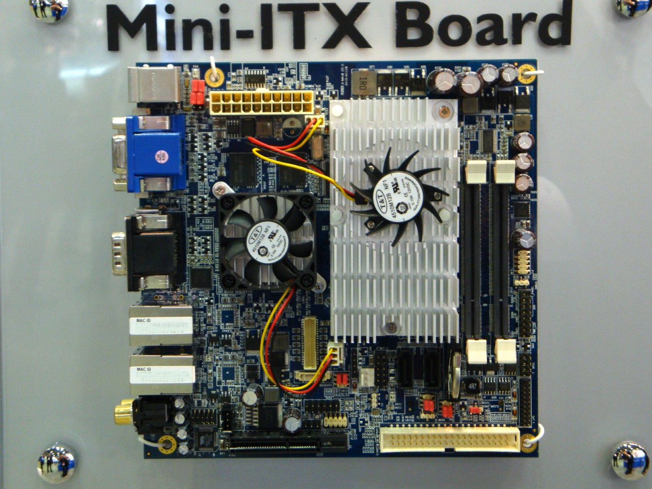 VIA Trinity Sample Board at ESEC 2009 TOKYO.